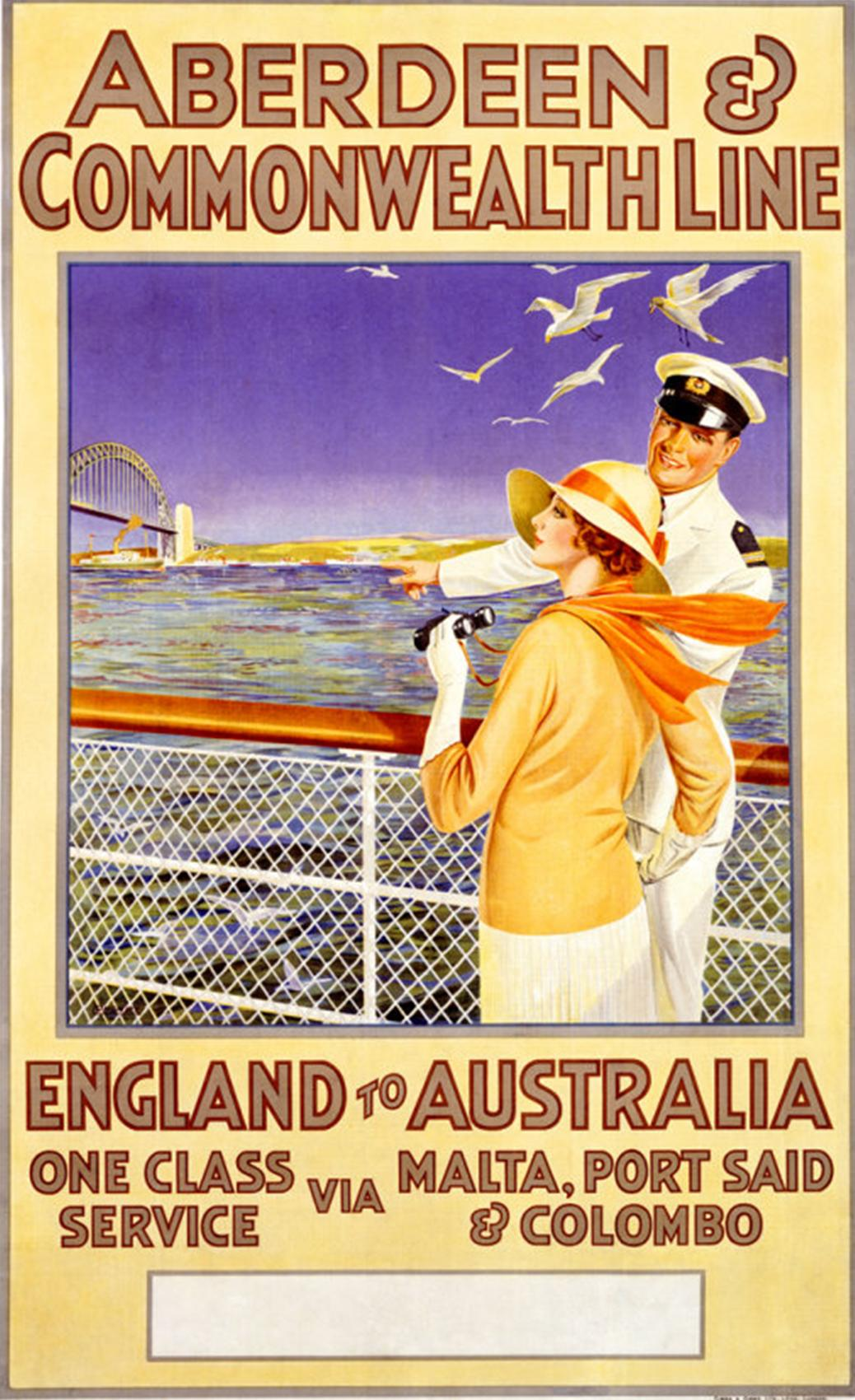 Shipping poster advertising the Aberdeen & Commonwealth Line, a company long defunct